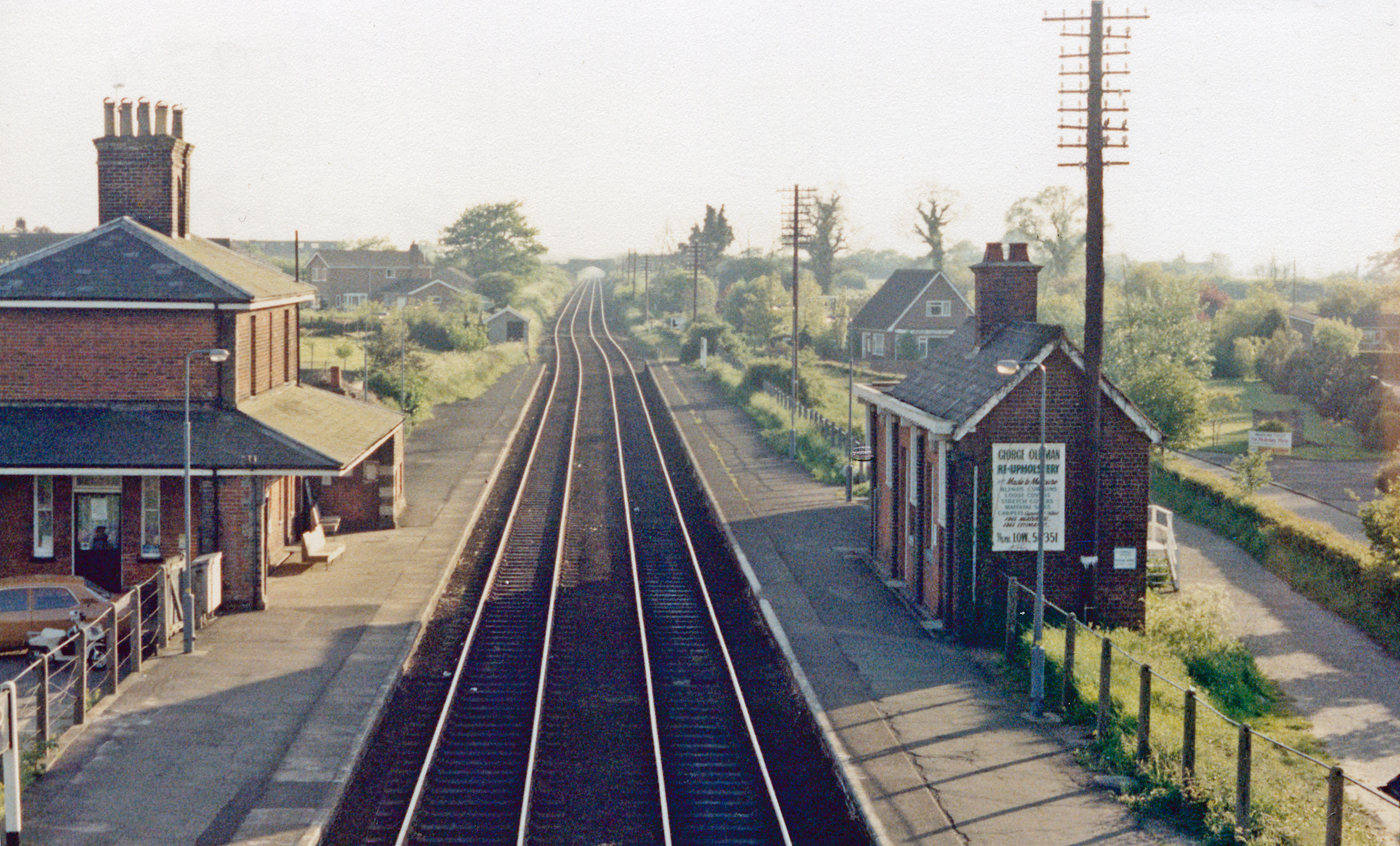 Oulton Broad South station, 1985. View westwards, towards Beccles: ex-GER Beccles - Lowestoft line; until 26/9/27 the station called Carlton Colville - which is where it is.